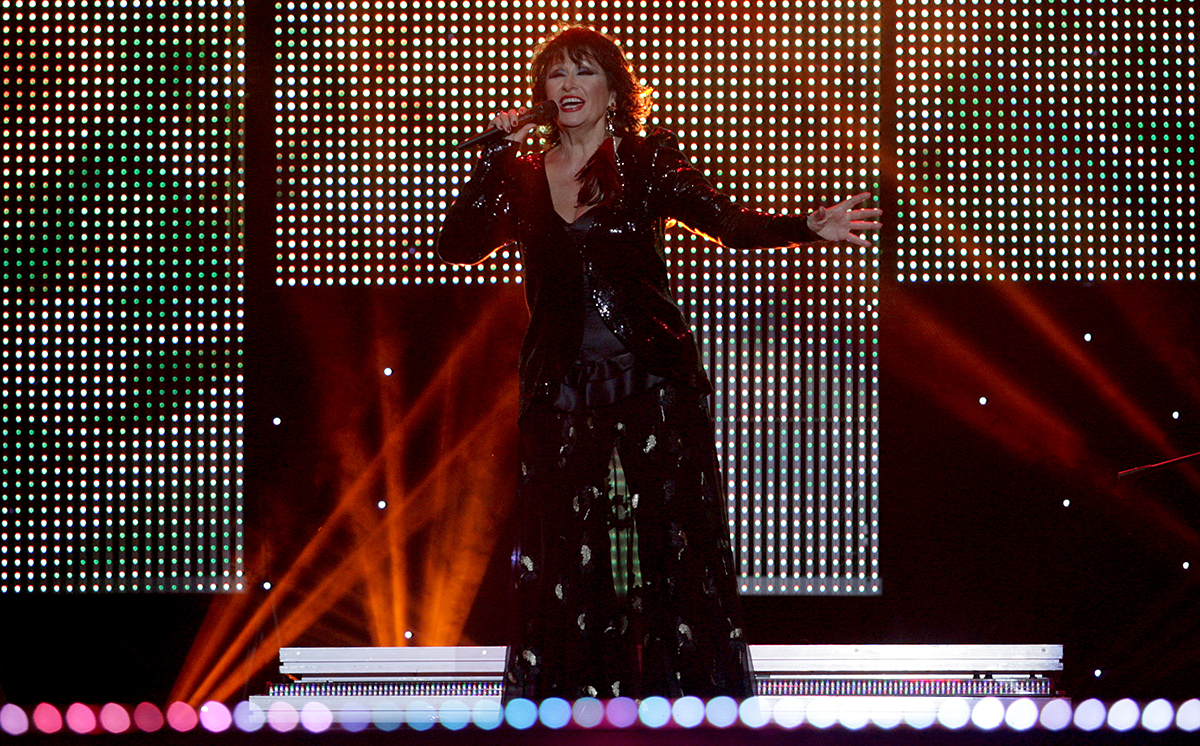 A concert photo of Yordanka Hristova, from the audience